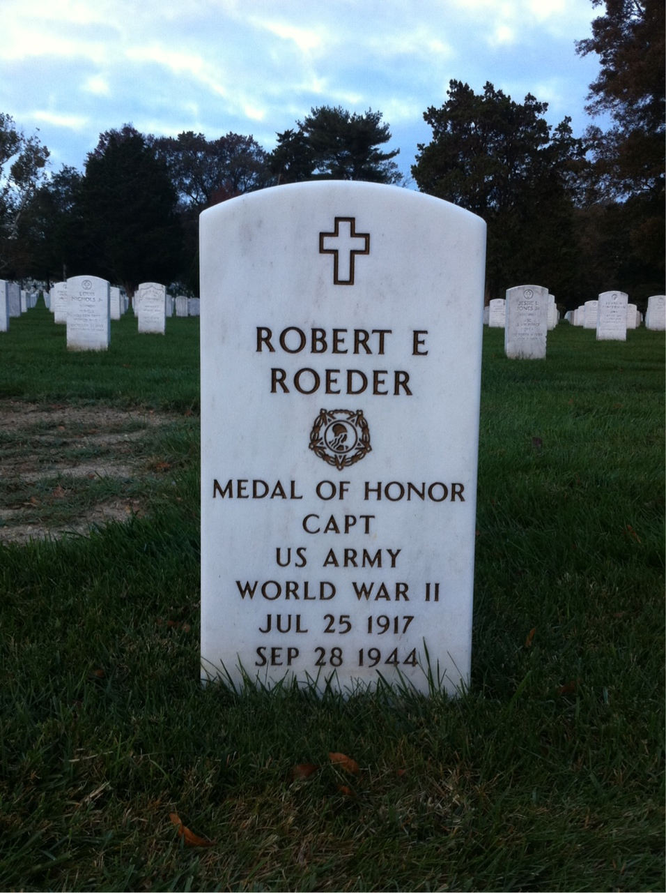 Grave of Robert E. Roeder at Arlington National Cemetery